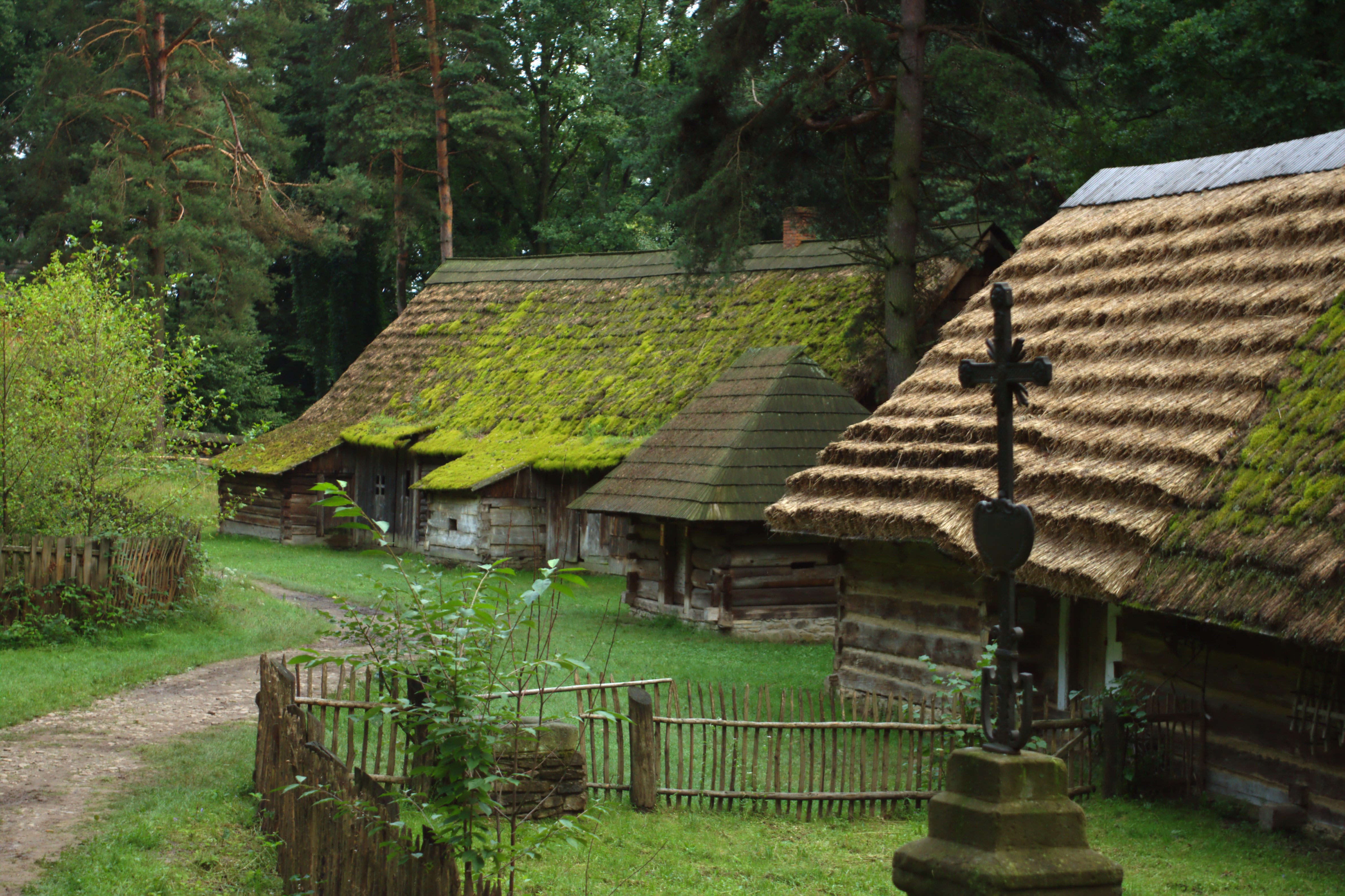 Old wooden houses with a cross in Lemko sector of the Sanok skansen, Podkarpackie voivodeship, Poland